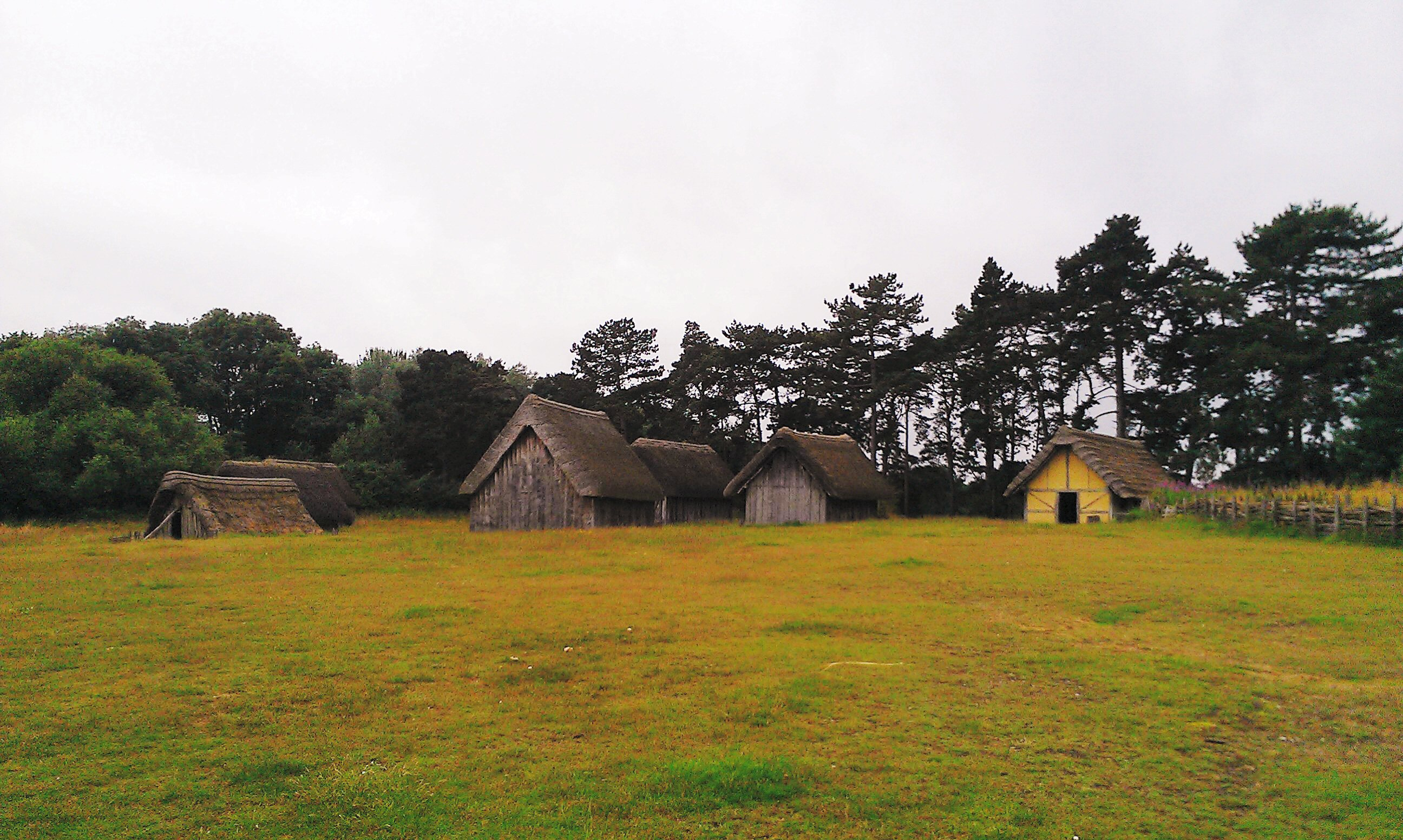 A panorama of West Stow Anglo-Saxon village, a series of timber reconstructions using materials that would have been available in Anglo-Saxon England. Photographed in summer 2012.